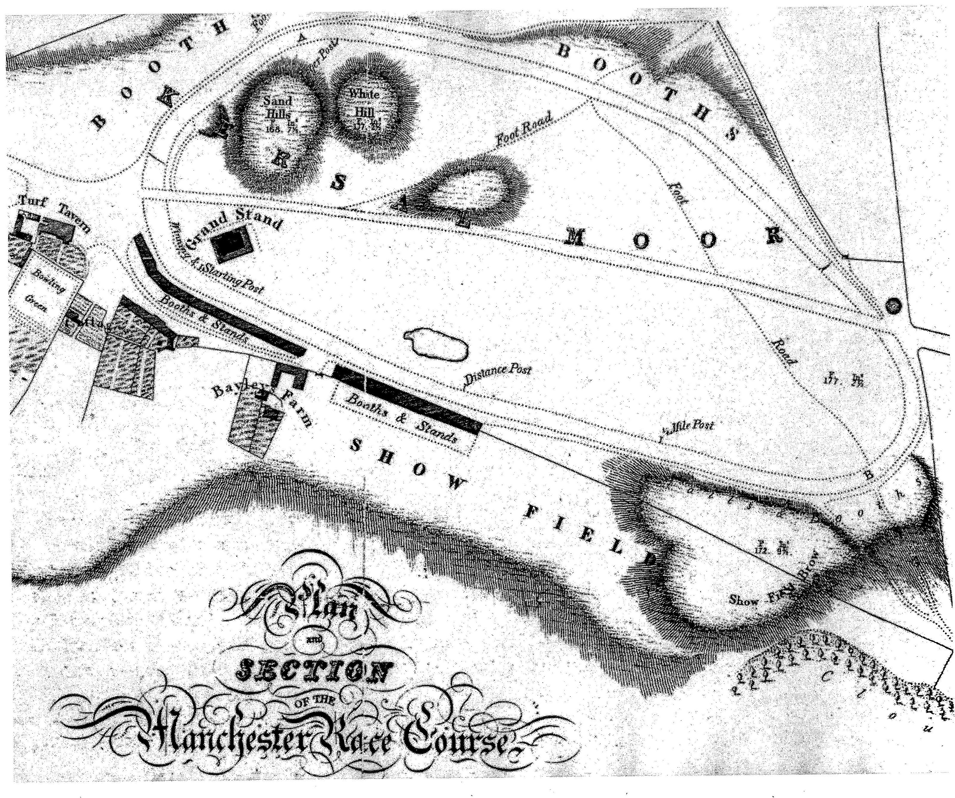 Plan of the Manchester Racecourse on Kersal Moor sometime before 1846